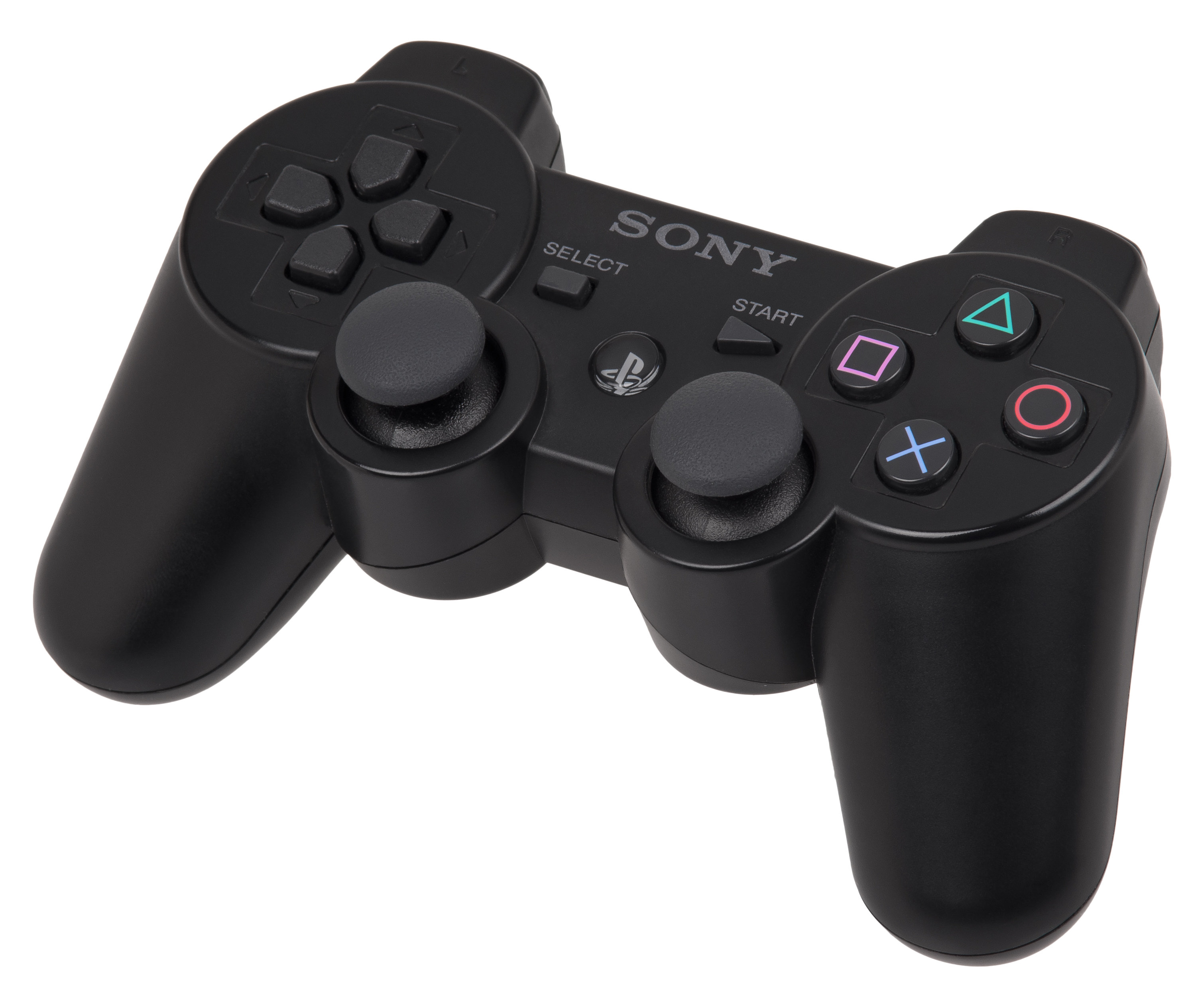 A Sony PlayStation 3 DualShock 3 wireless controller.